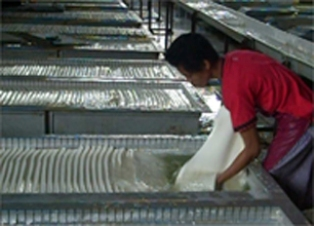 Pembekuan lateks dalam pengolahan karet sit asap